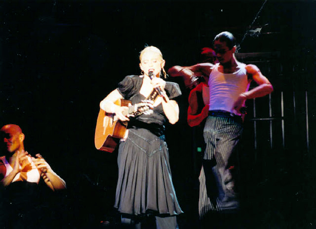 Photo taken at the concert